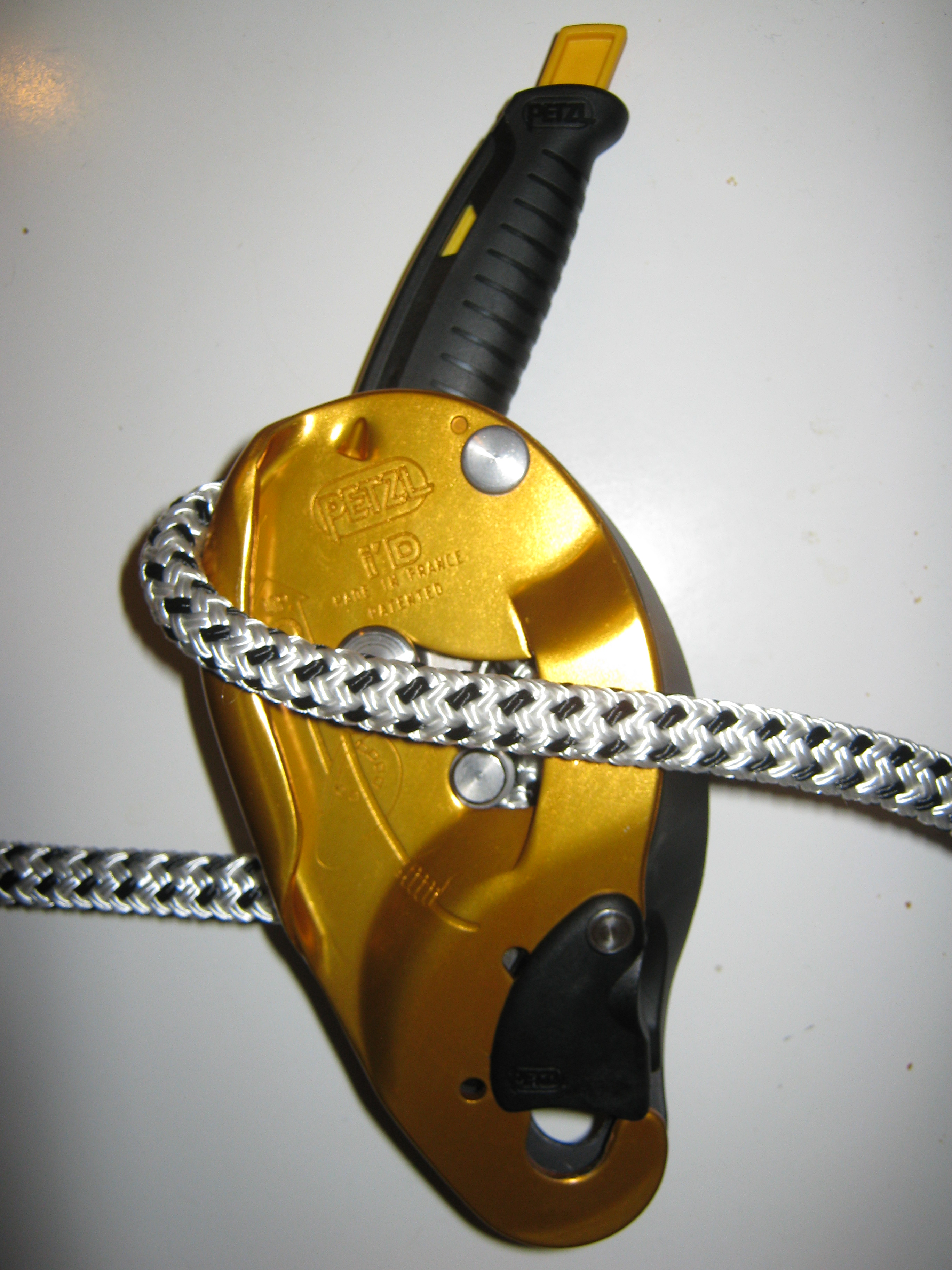 Petzl I'D S ready